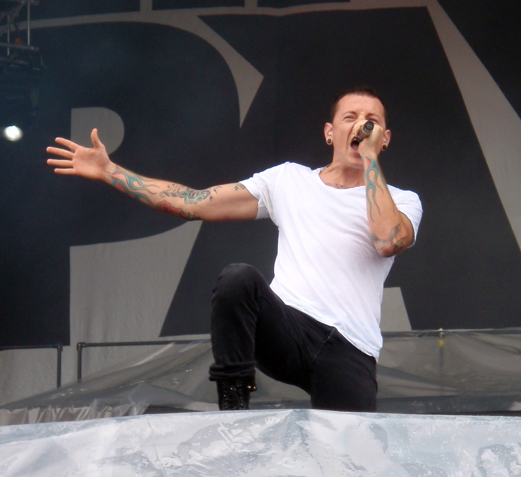 Chester Bennington from Linkin Park performing at Sonisphere Festival in Kirjurinluoto, Pori, Finland.